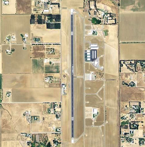 USGS digital orthophoto of Yolo County Airport in California